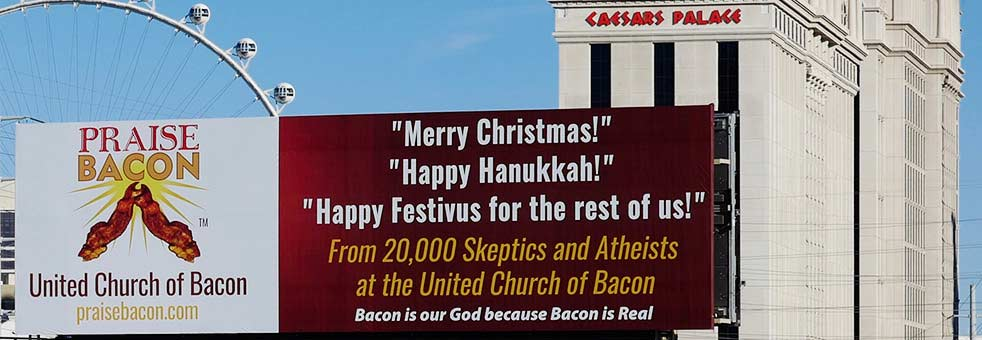 Church of Bacon